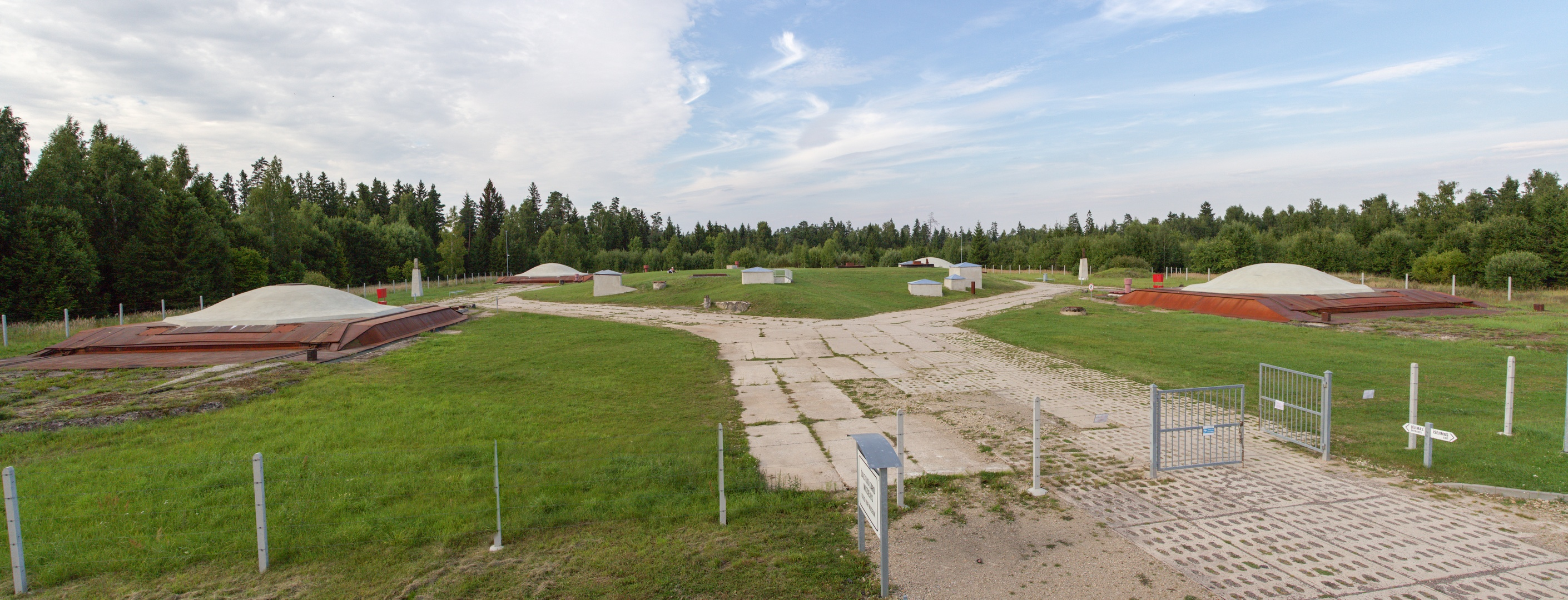 Cold war museum / Plokstine missile base (2013), Plunge district, Lithuania